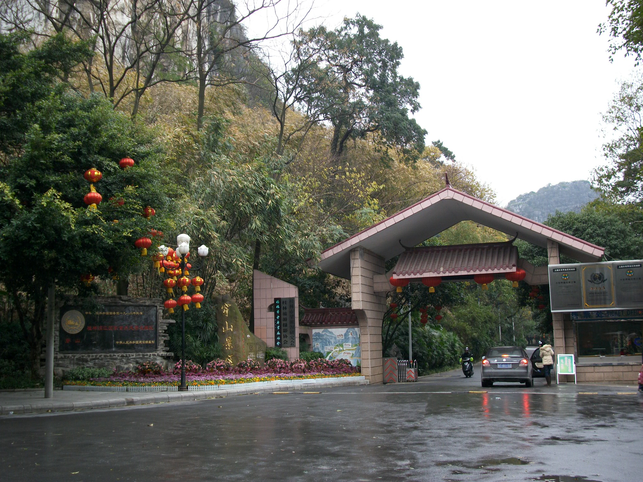 Chuanshan Scenic Area.